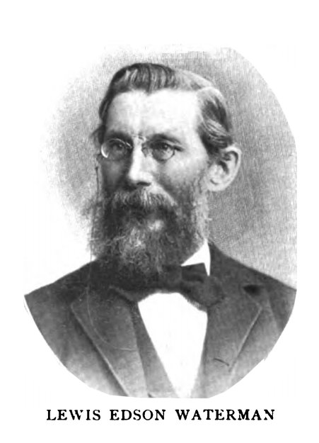 Lewis Edison Waterman